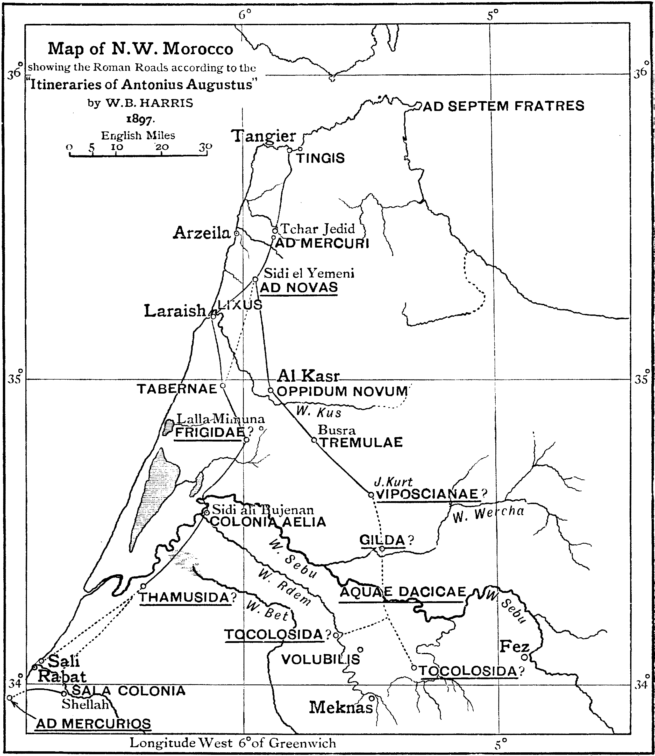 Map of the Roman roads in Morocco, according to traveler and journalist Walter B. Harris, reconstructed from the Antonine Itinerary.